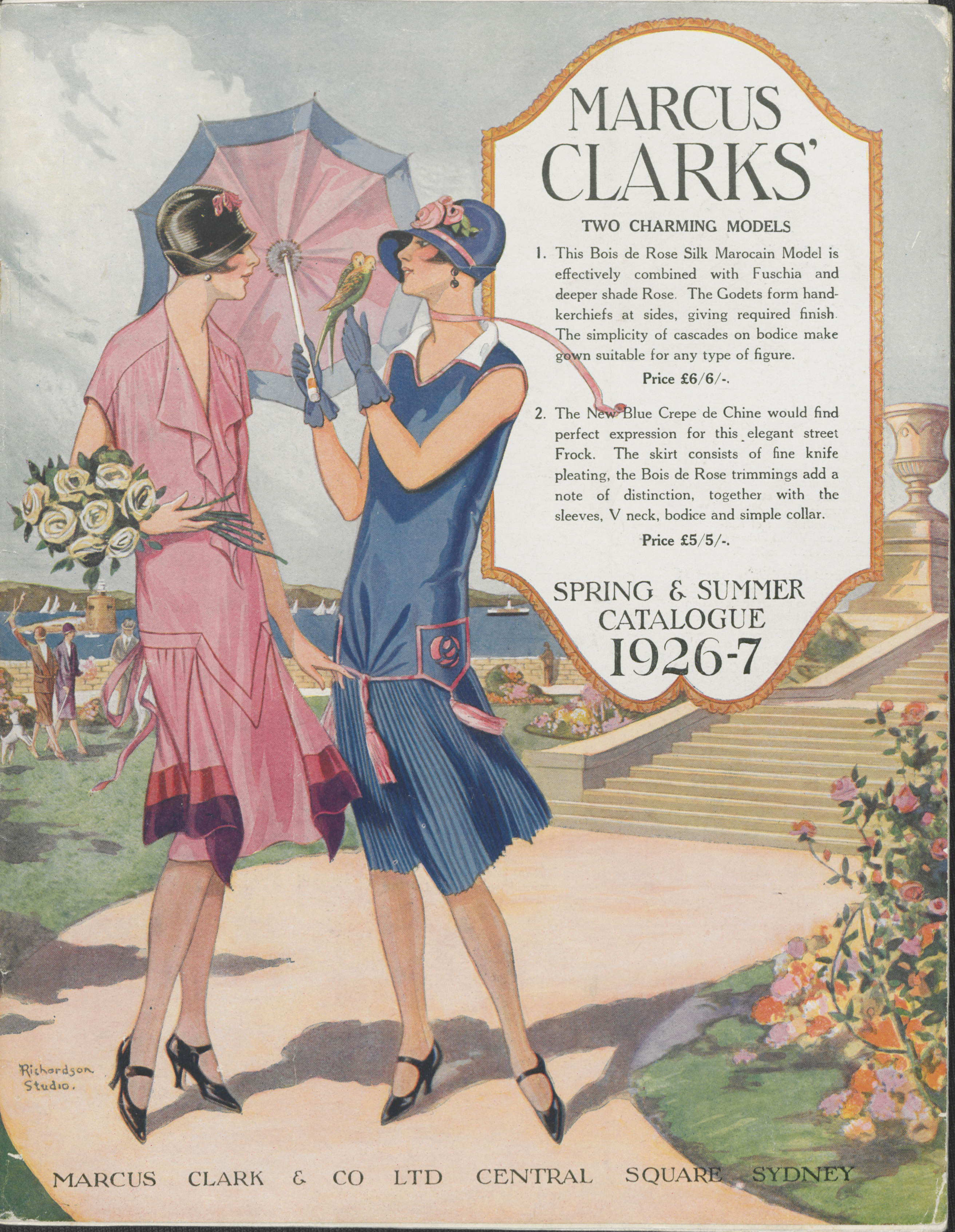 Cover of Marcus Clarks' spring & summer catalogue 1926/27. From the collections of the State Library of New South Wales [ML Q381.14102/1 ].